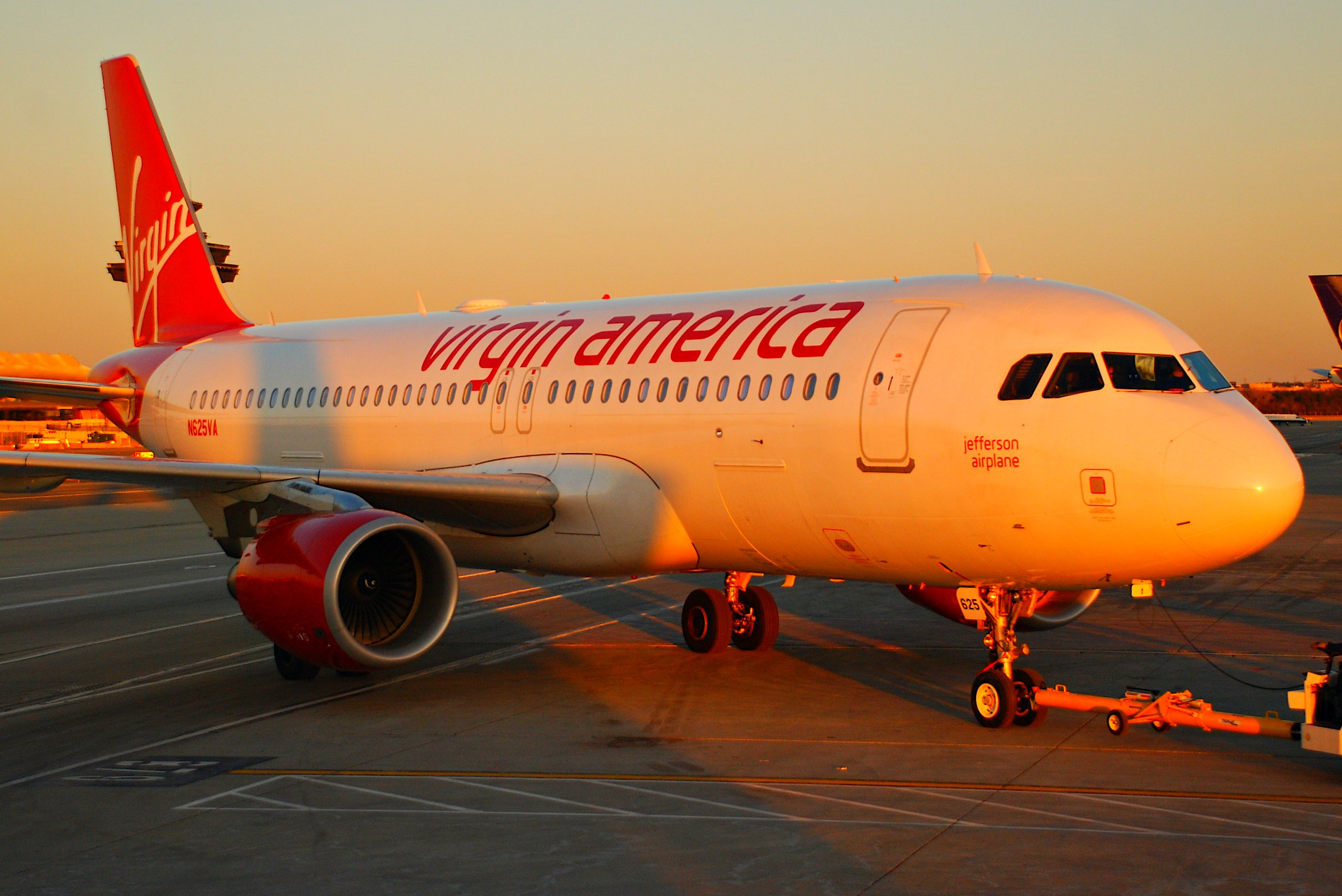 Virgin America Airbus A320-214 named 'Jefferson Airplane' took its first flight on May 29, 2006 (c/n 2800)...